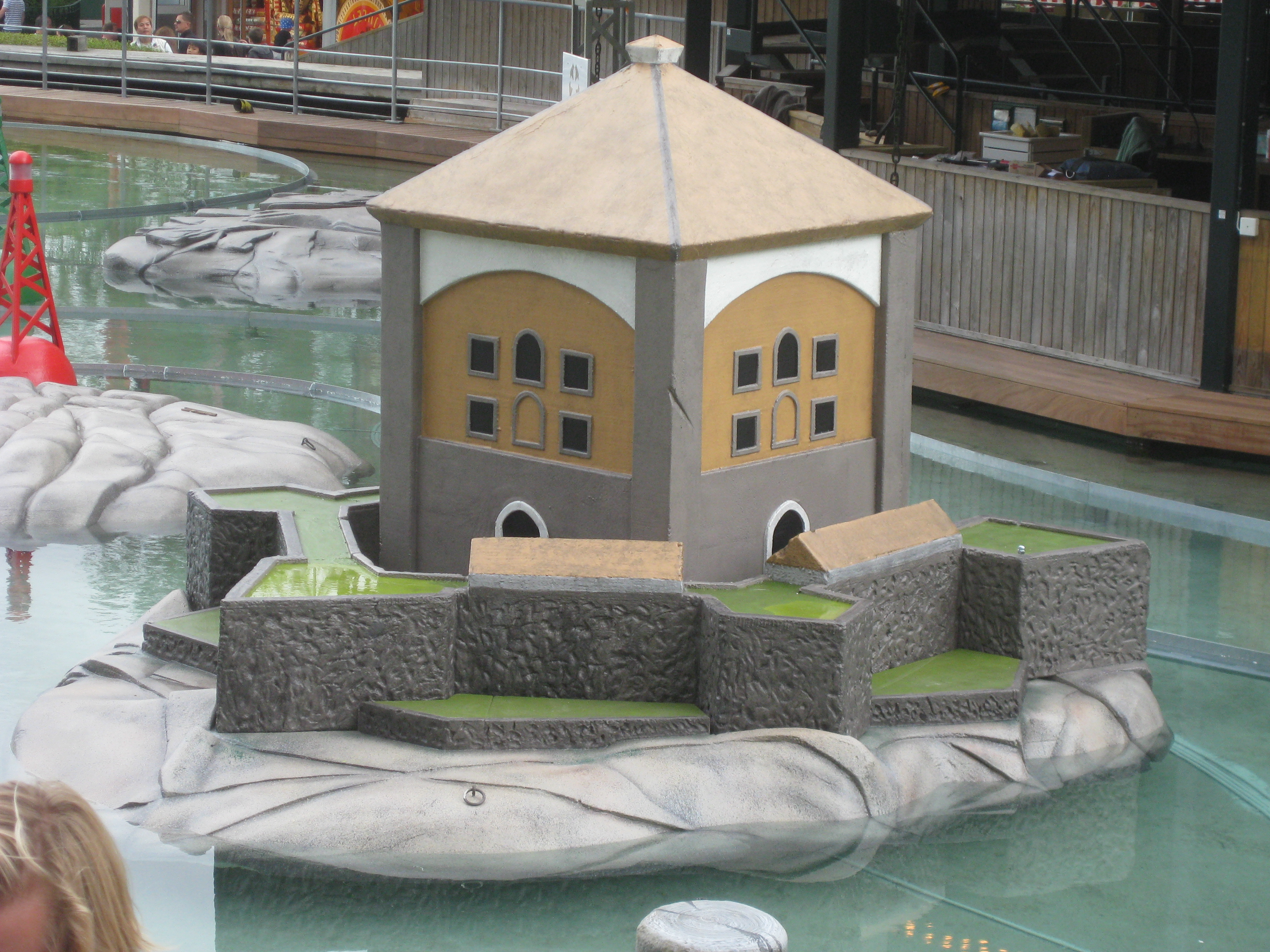 Skepp o' skoj is an amusement ride at the Liseberg amusement park in Gothenburg, Sweden.